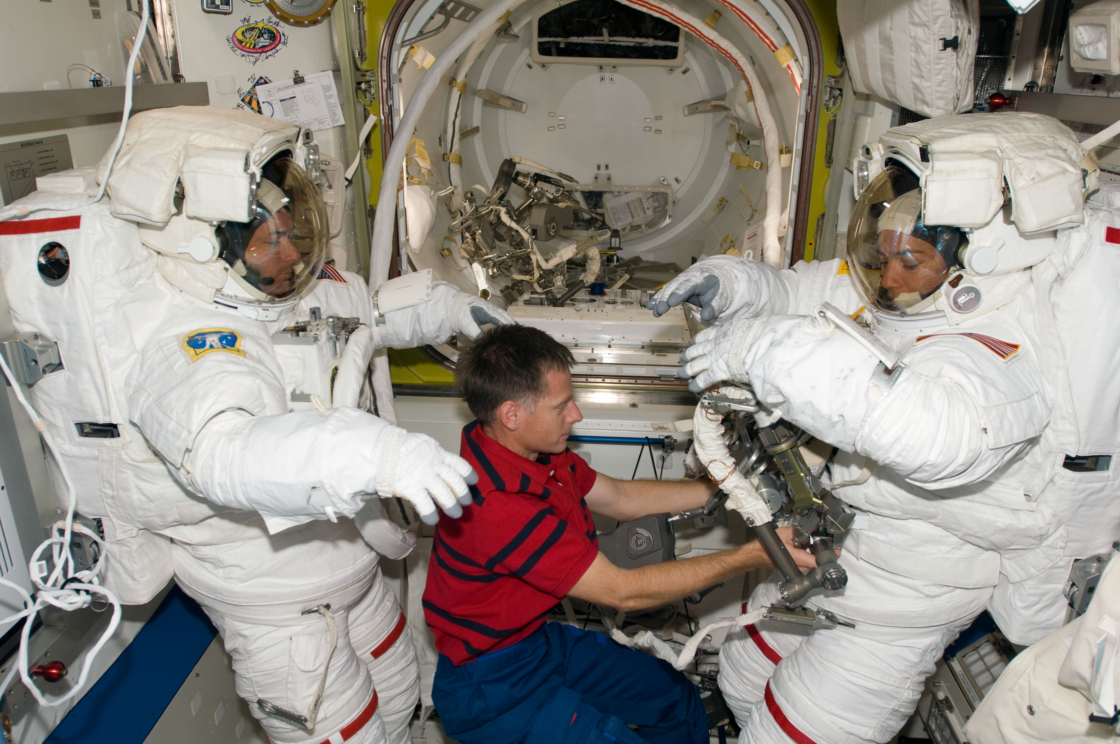 Astronauts Shane Kimbrough (left) and Heidemarie Stefanyshyn-Piper, both STS-126 mission specialists, attired in their Extravehicular Mobility Unit (EMU) spacesuit, prepare for the mission's second scheduled session of extravehicular activity (EVA) in the Quest Airlock of the International Space Station. Astronaut Chris Ferguson, commander, assisted Kimbrough and Piper.